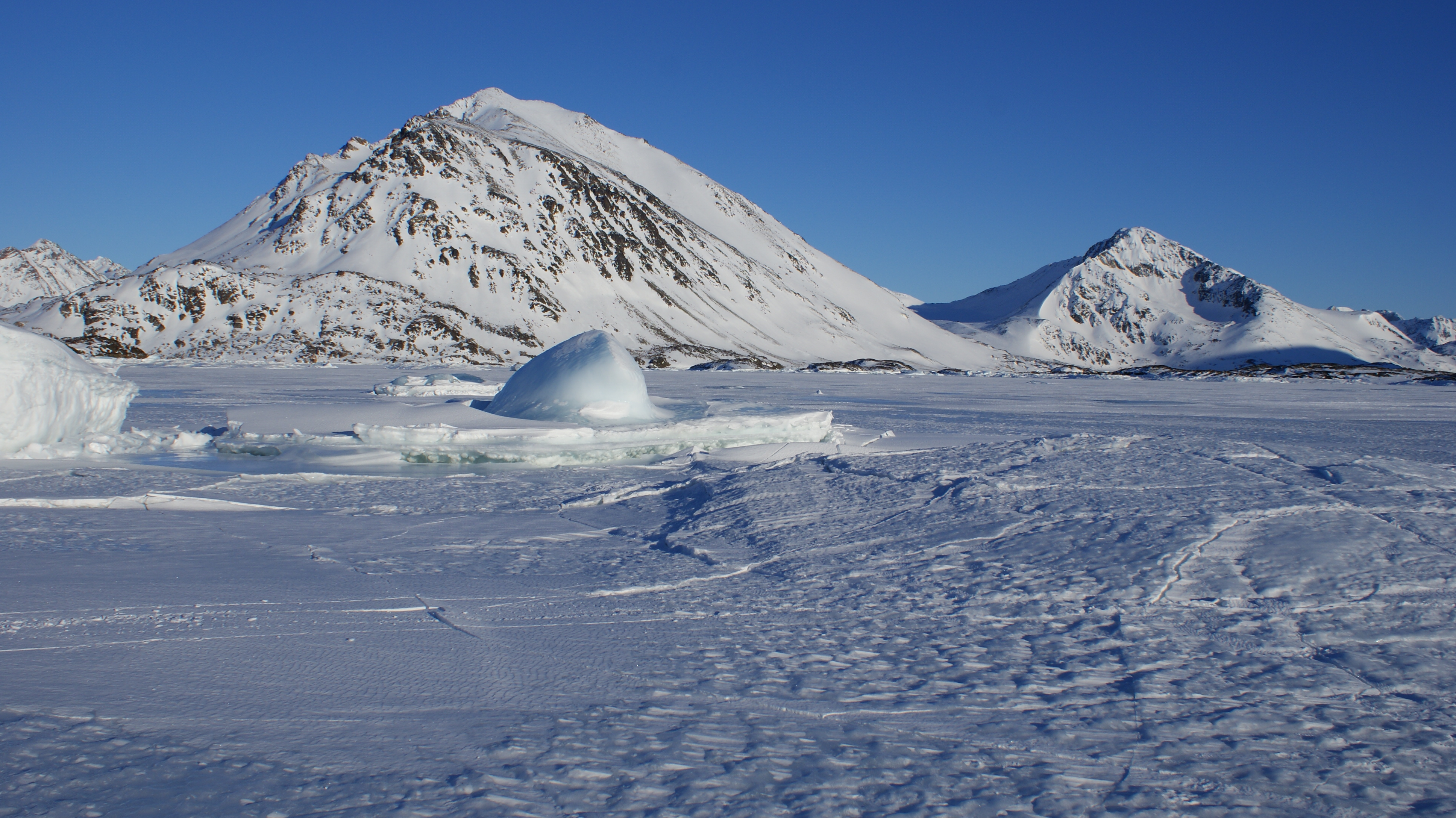 Apusiaajik island, Greenland. Photographed from the frozen Torsuut Tunoq sound northeast of Kulusuk. Iperajivit and Kangaartik.